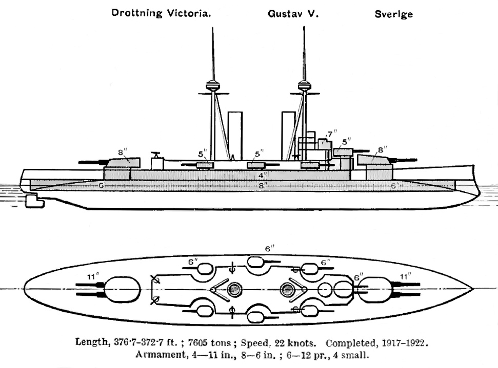 Diagrams depicting right elevation and deck plan of Swedish Sverige class coastal defence ship. Top diagram depicticts armour thickness (shaded area) in inches. Bottom diagram depicts gun sizes in inches.